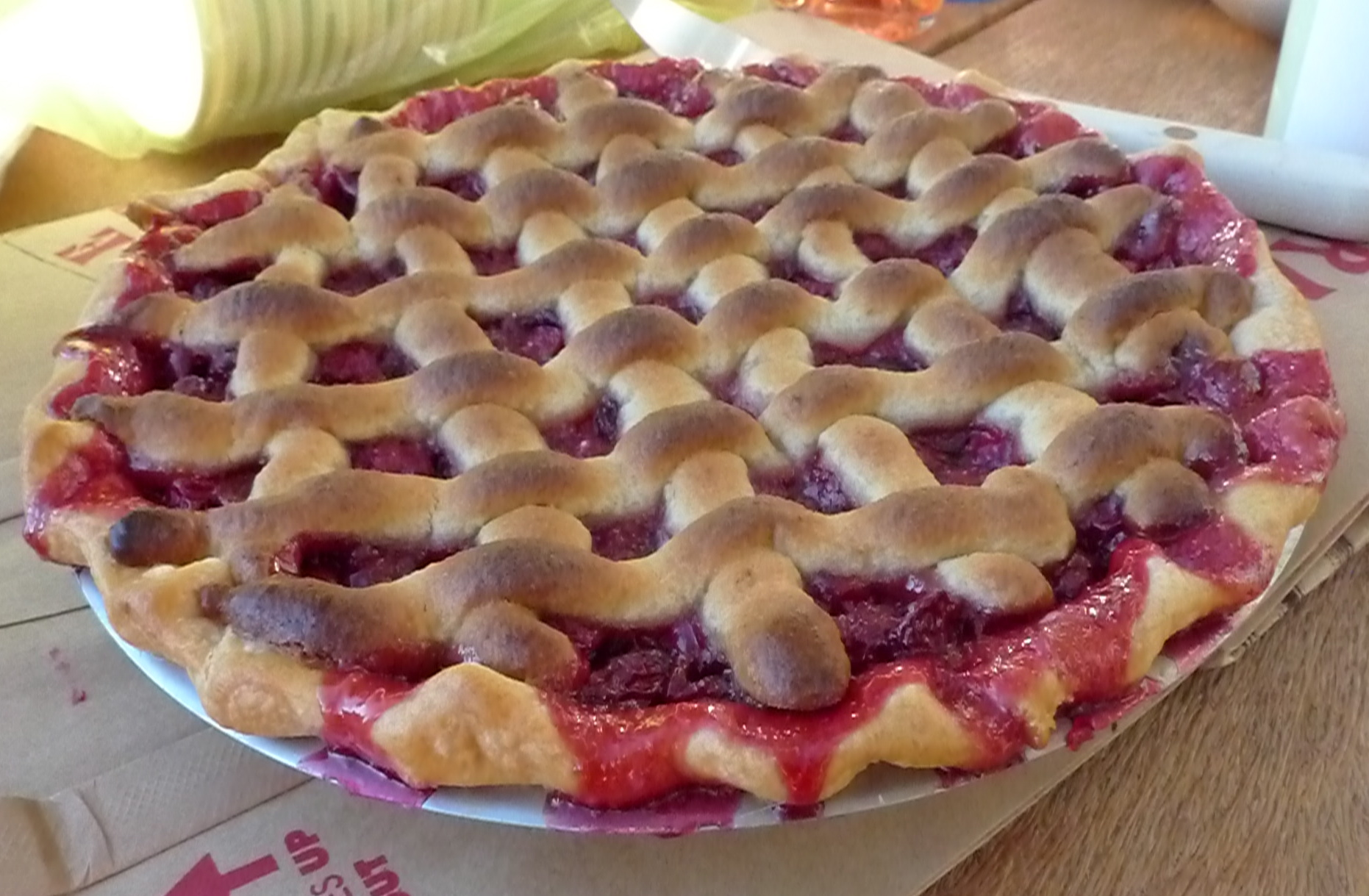 Dan is now permanently invited to every event I throw. This is his sour cherry pie with marzipan topping made to look like lattice pie crust- nummers!